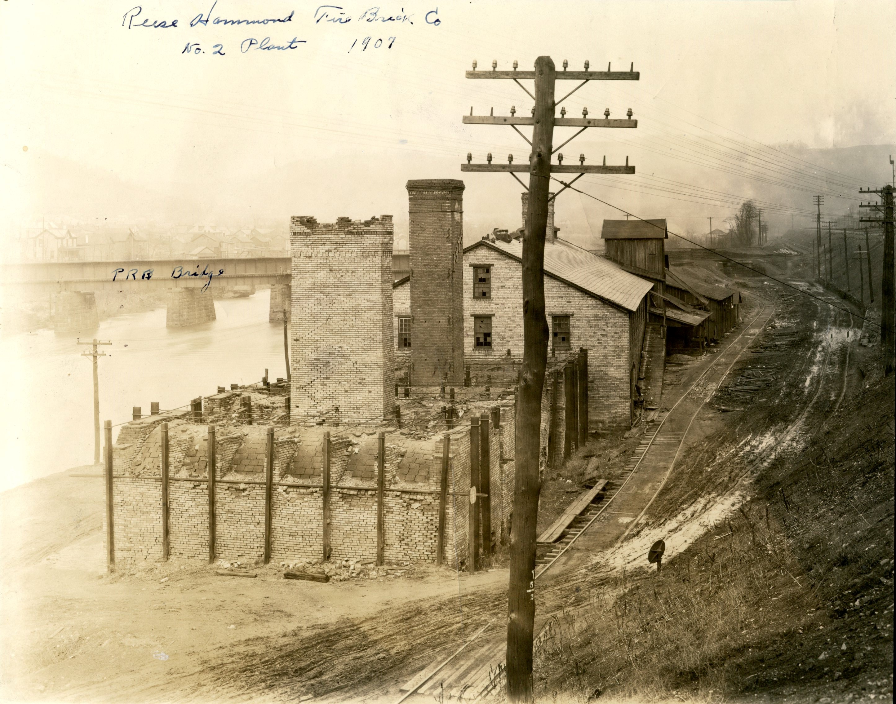 Photograph of one of the brick manufacturing plants that operated in Bolivar, PA in 1907. This facility was located on the South bank of the Conemaugh River just to the west of the currently existing railroad bridge (shown in the photograph).